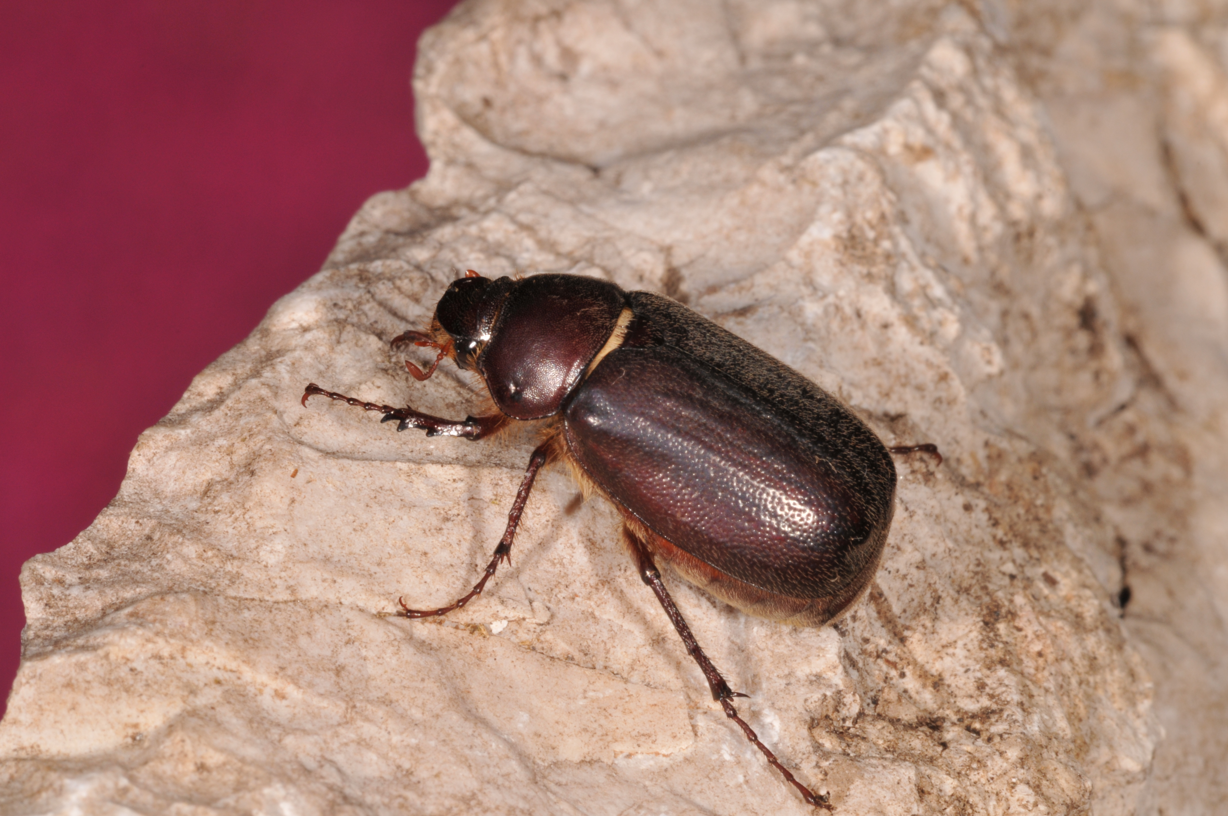 Haplidia transversa, Croatia, Istria, Brseč 15 km south Lovran, 45°10`23,80``N 14°13`37,25``E